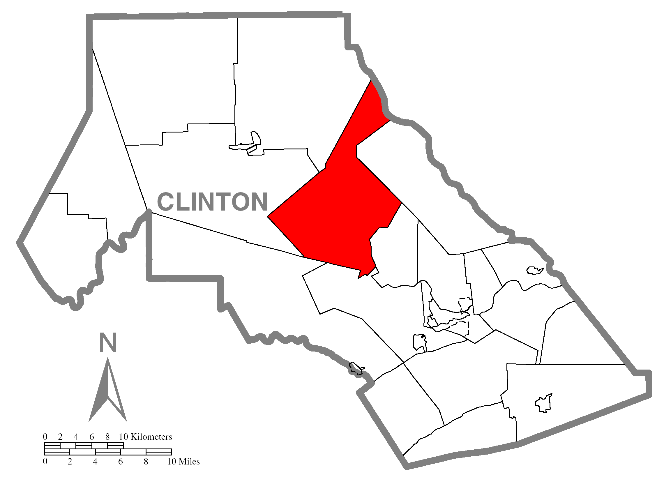 A map of Clinton County showing Grugan Township, Pennsylvania (alternate) highlighted on the map.